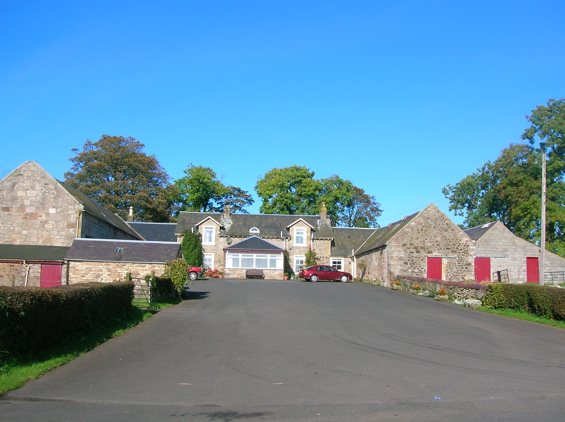 Laigh Langmuir farm, Kilmaurs, East Ayrshire, Scotland. October 2007. Roger Griffith.